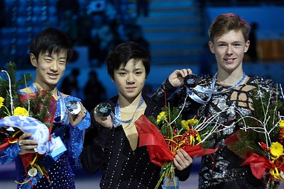 The men's podium at the 2014-2015 ISU Junior Grand Prix Final. From left: Sota Yamamoto (2nd), Shoma Uno (1st), Alexander Petrov (3rd).